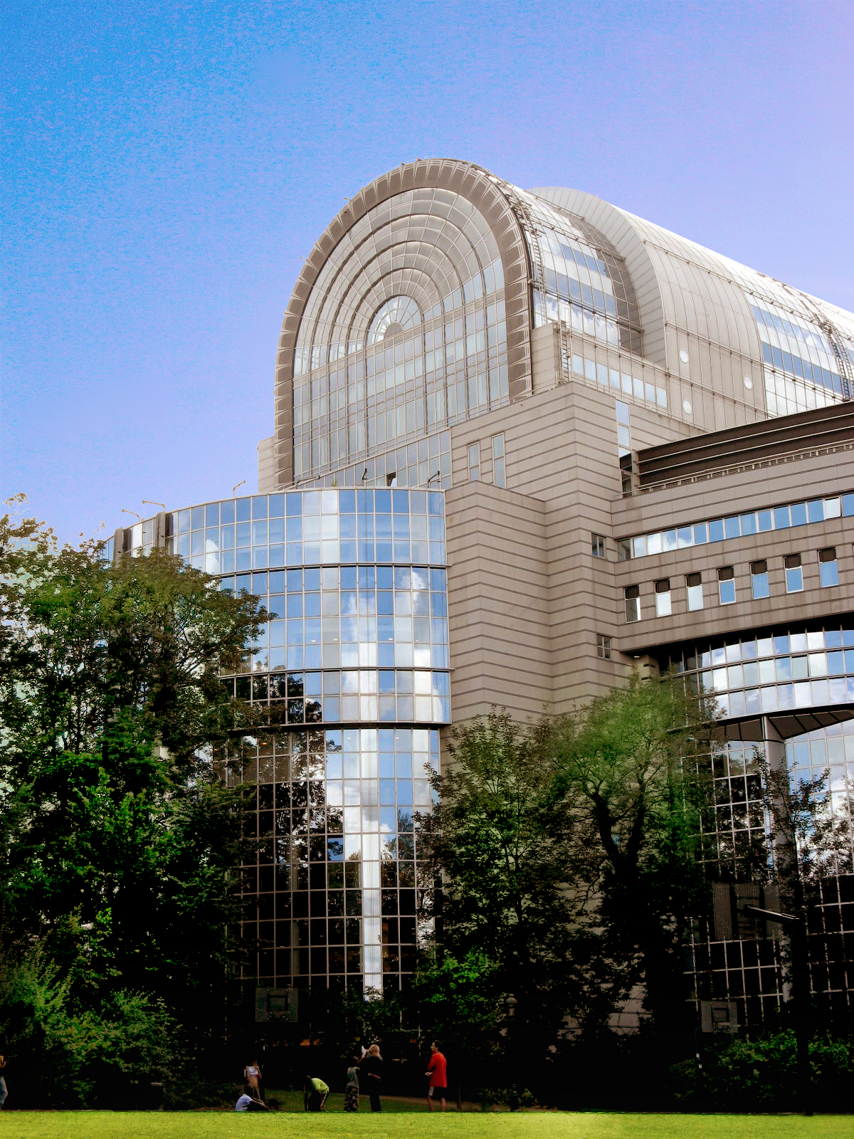 The European Parliament in Brussels